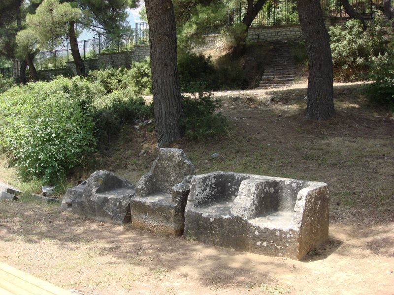 seat remains.